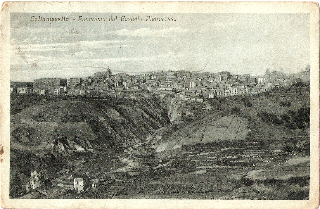 Caltanissetta: view from Pietarossa Castle